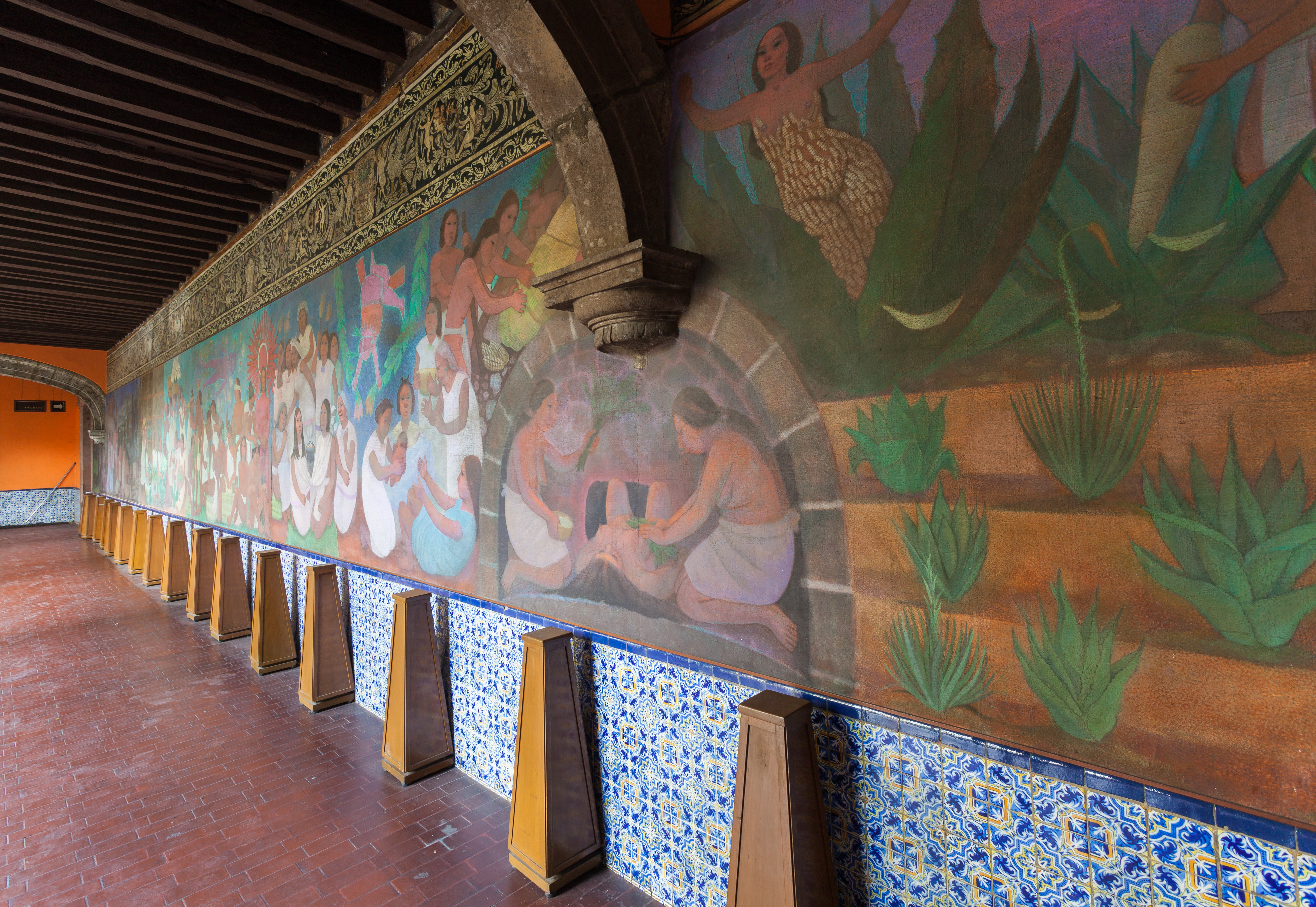 Hospital of Jesus of Nazareth, Mexico City, Mexico